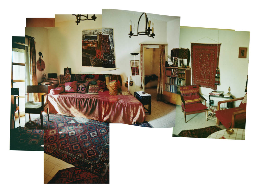 Zohar wilbushewich's living room